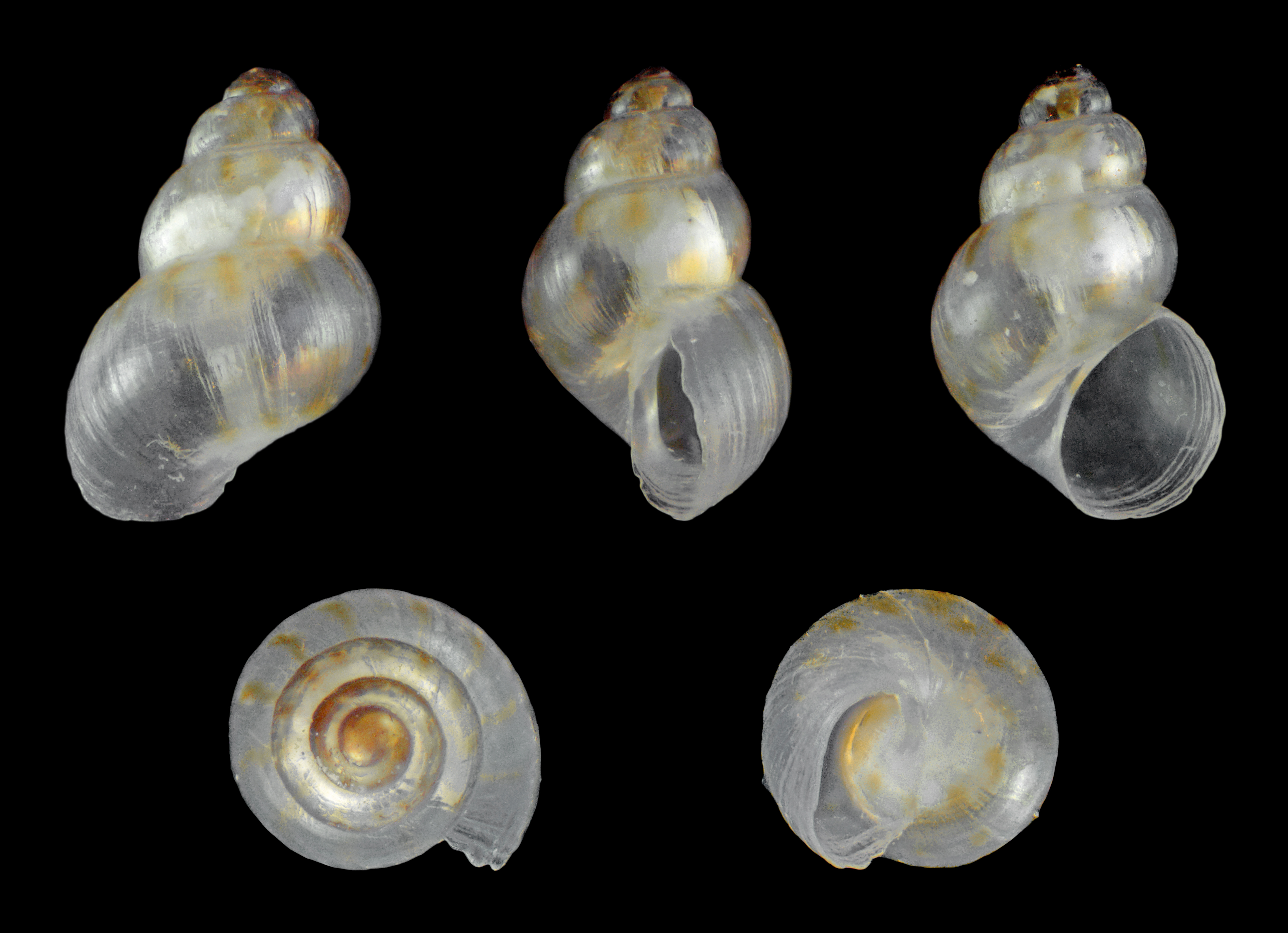 Length 0.15 cm; Originating from Mallorca, Spain; Shell of own collection, therefore not geocoded. Dorsal, lateral (right side), ventral, back, and front view.